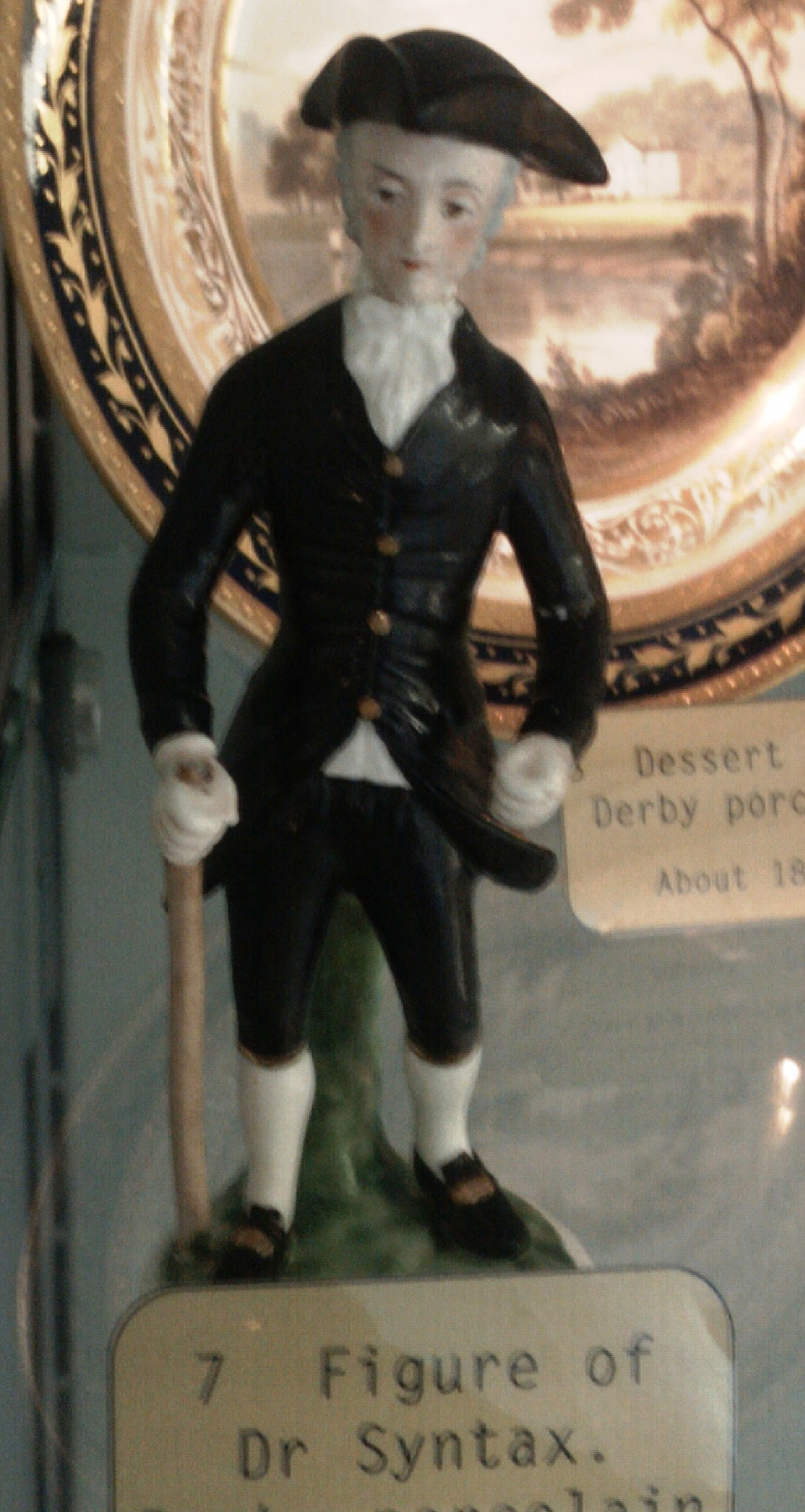 18th Century Derby Pocelain figure of Dr Syntax who was a comic figure. This figure is in Derby Museum and Art Gallery